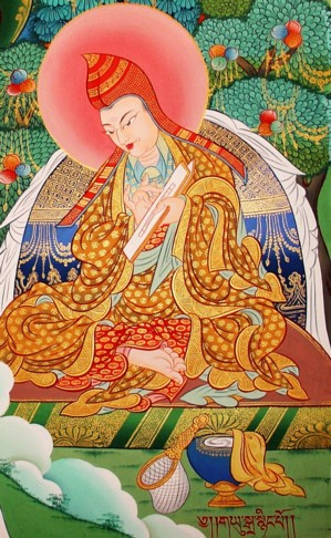 Yudra Nyingpo, eighth century Tibetan translator and disciple of Padmasambhaba